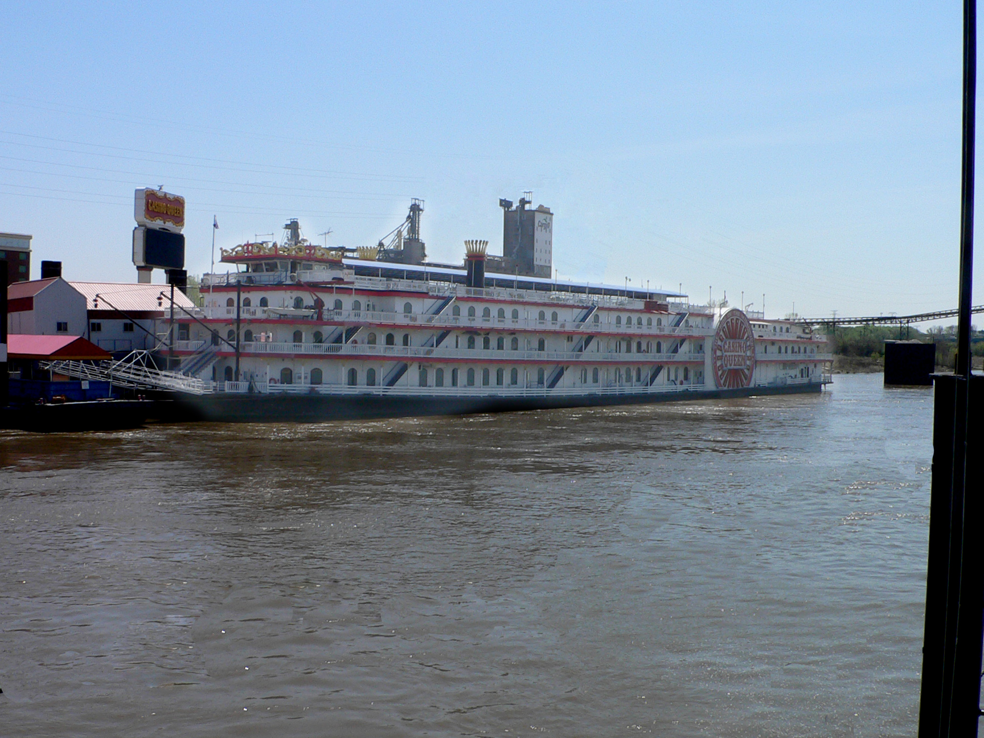 Floating casino on the Mississippi, St. Louis